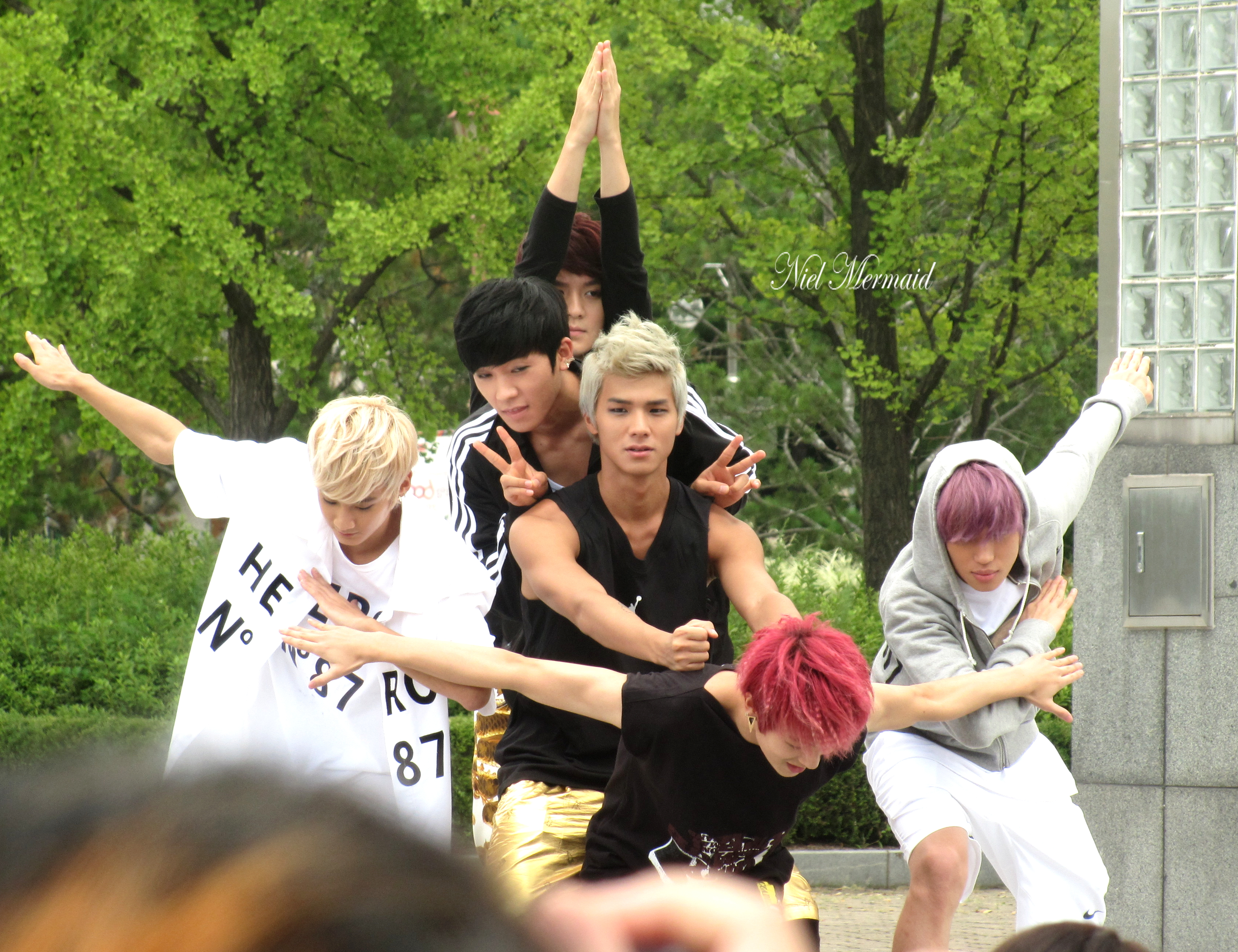 Teen Top's Music Core Fanmeeting on August 31st, 2013.